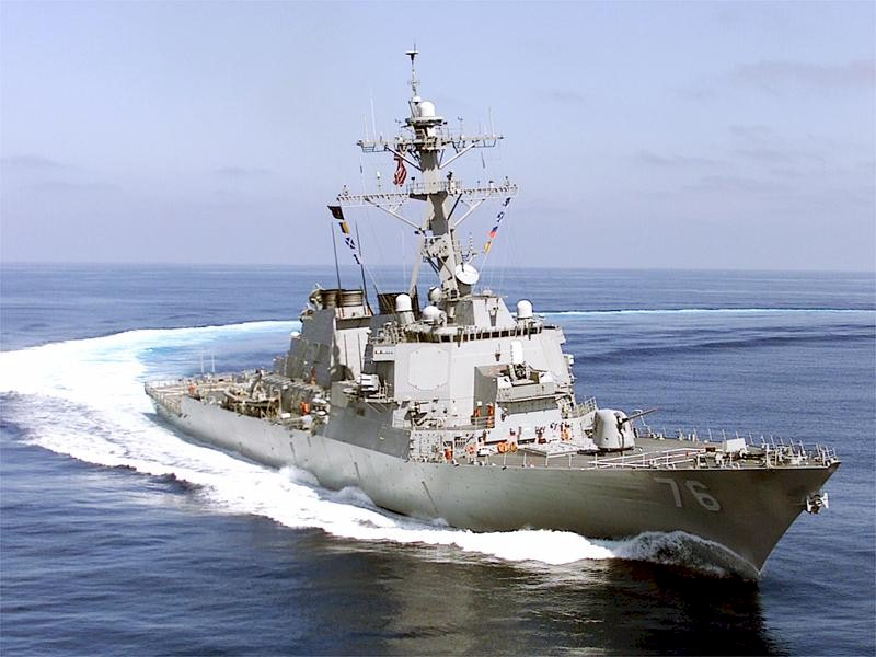 010614-N-8894M-001 Pacific Ocean (Jun.16, 2001) -- The Arleigh Burke class guided missile destroyer USS Higgins (DDG 76) maneuvers at high speed during routine operations near San Diego, California.